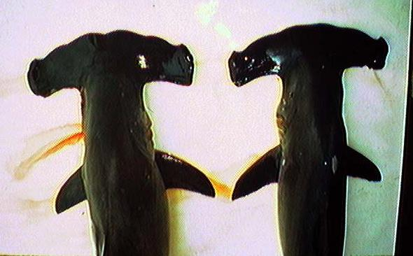 Comparison between a Scalloped hammerhead (Sphyrna lewini) (left) and a Smooth hammerhead (Sphyrna zygaena) (right)